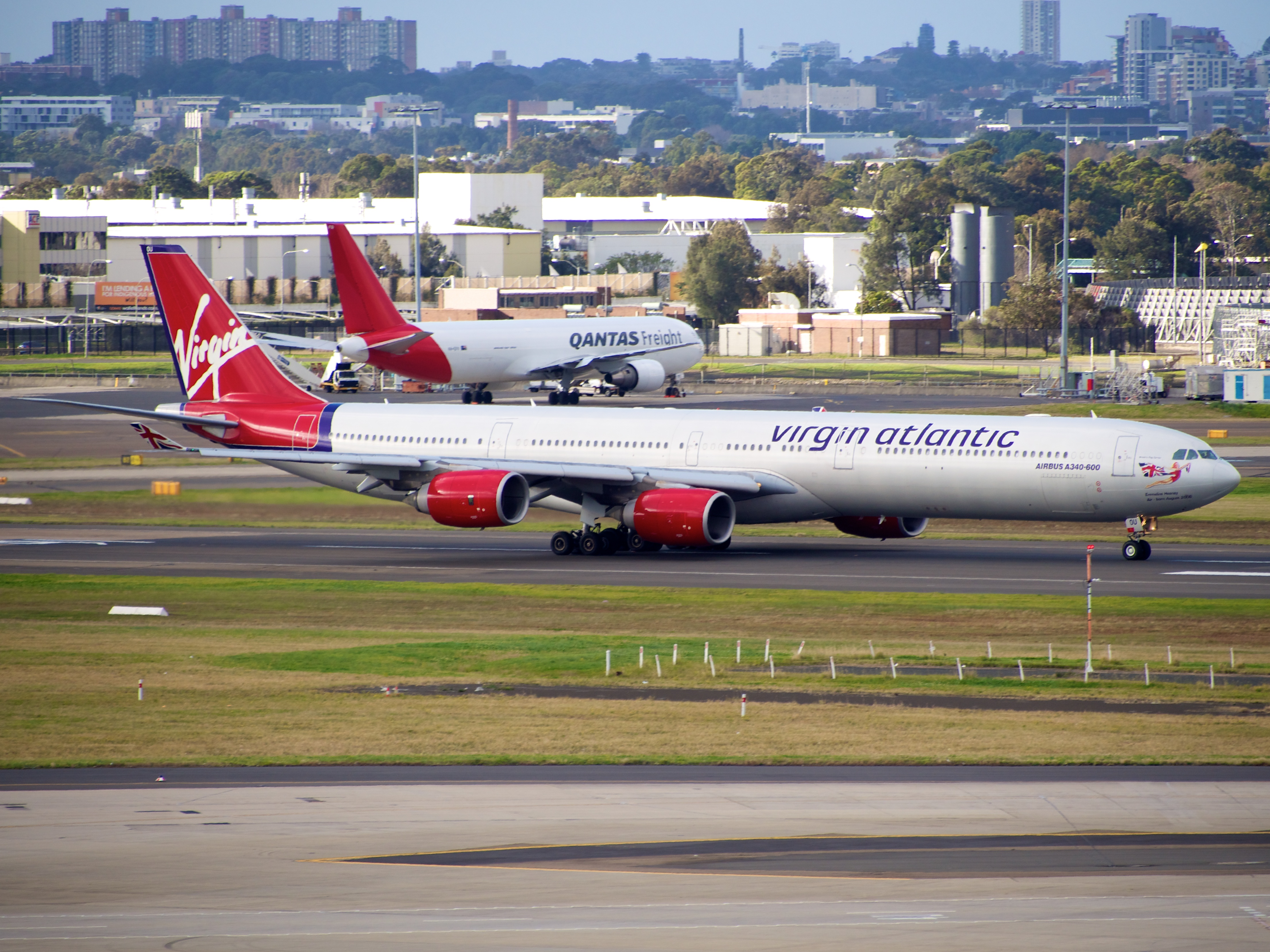 G-VYOU | A340-642 | Virgin Atlantic Airways | Sydney